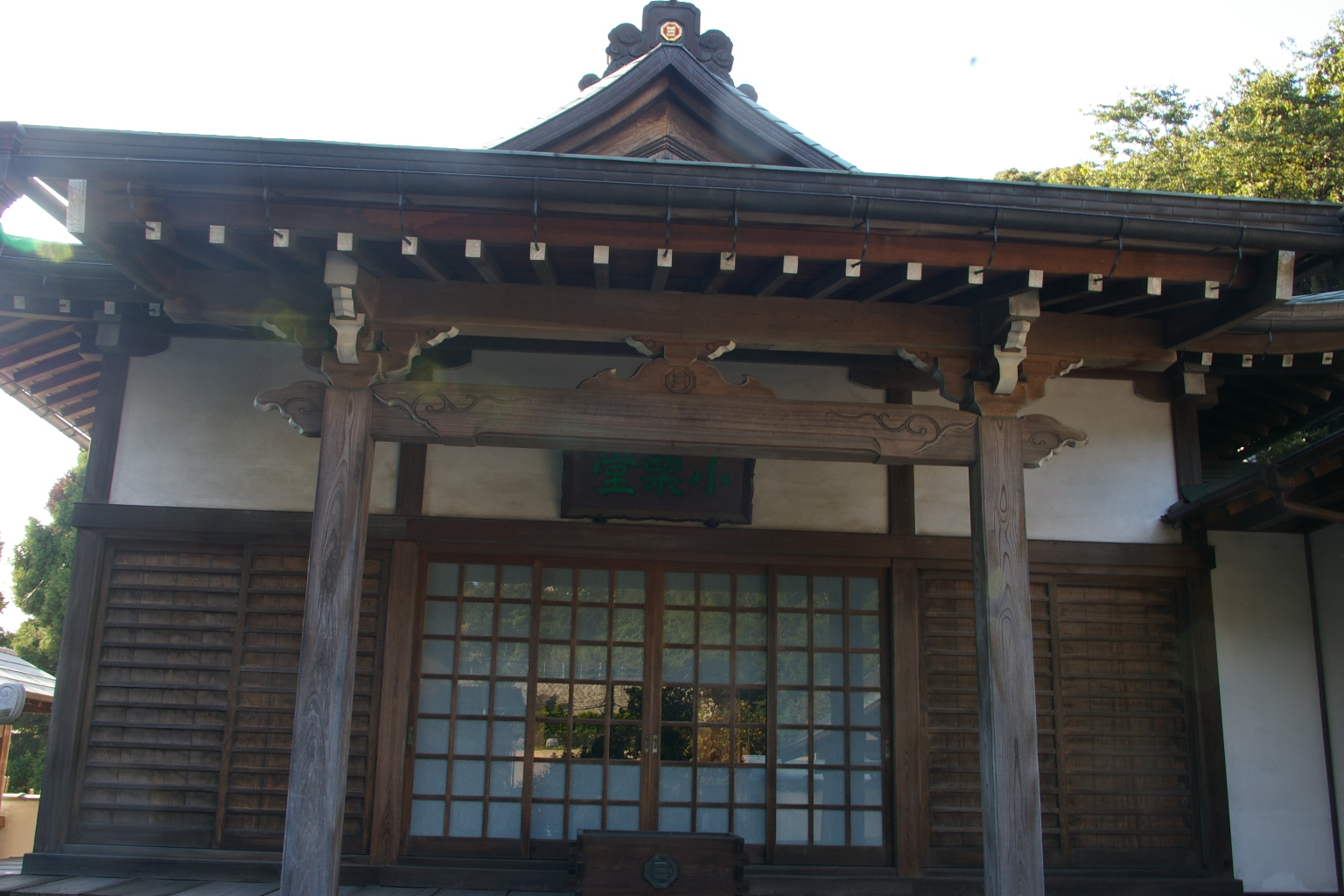 Ogurido,Shoujoukouji Temple,Fujisawa,Japan.